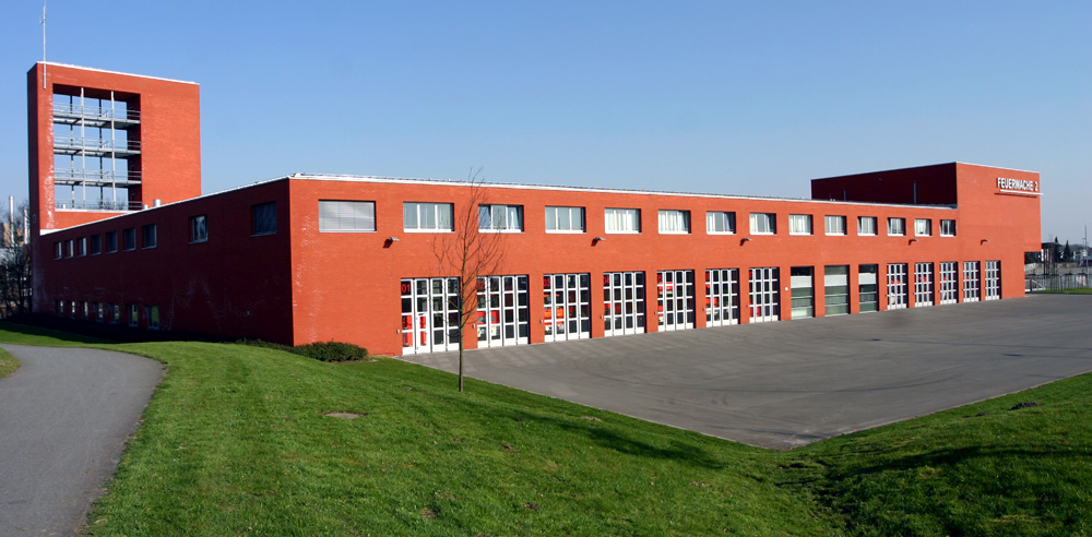 Firestation 2 in Münster, Germany